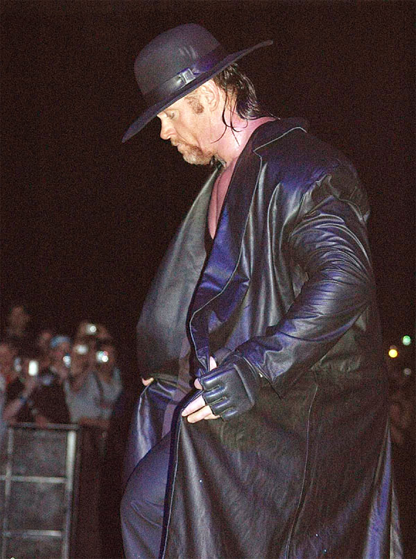 Picture of Undertaker entering the ring.